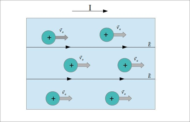 Corriente eléctrica